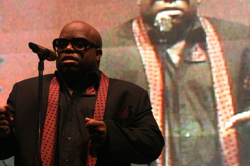 CeeLo Green at the SoCo Music Fest